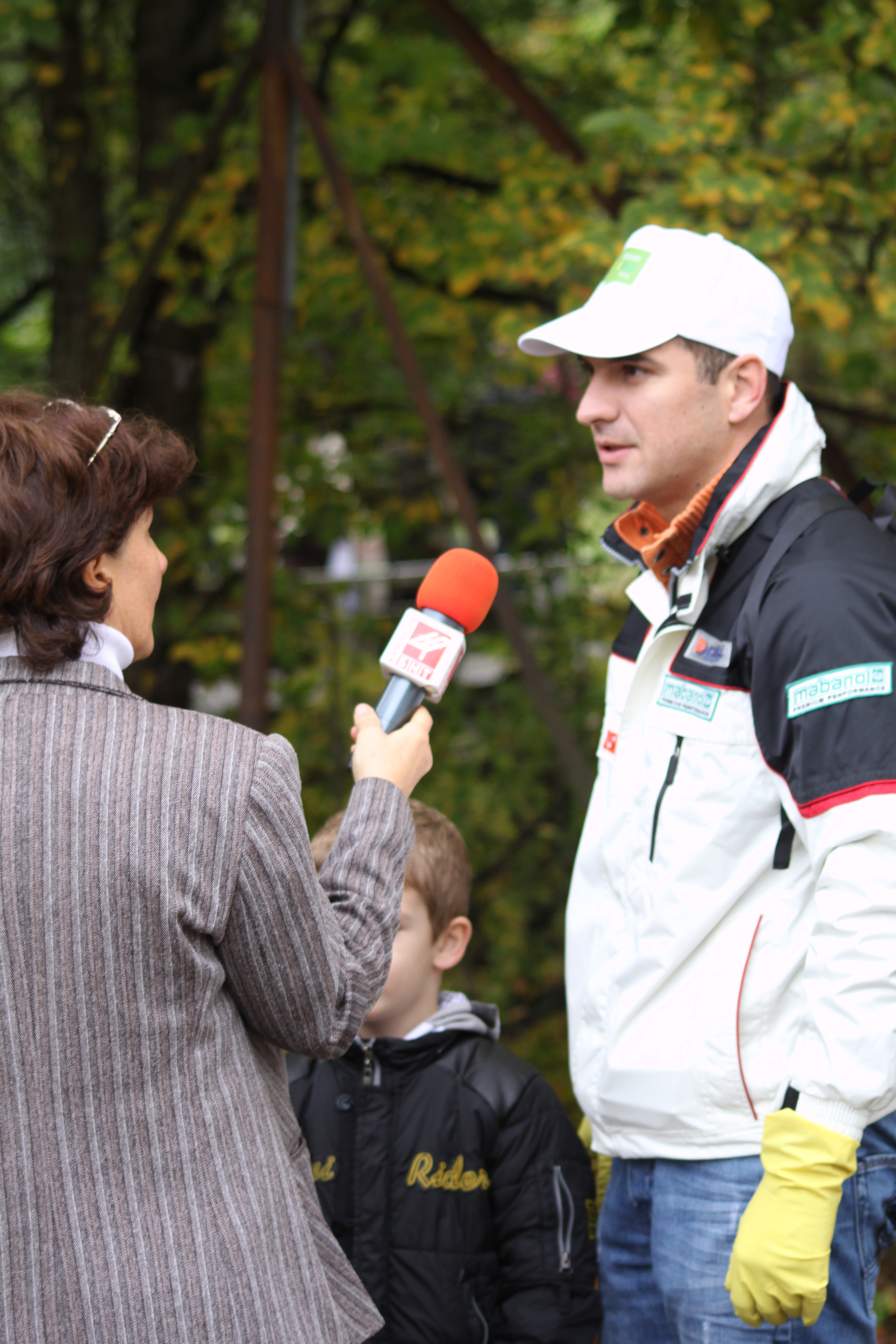 Krum Donchev interview for BNT 1